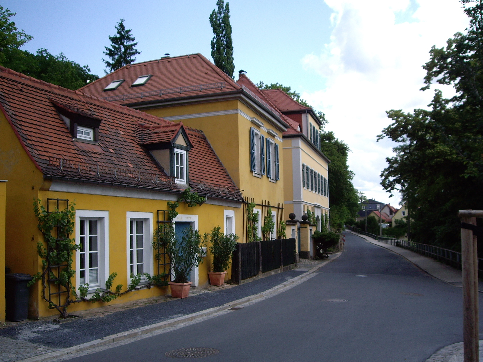 winery Minckwitz, Radebeul